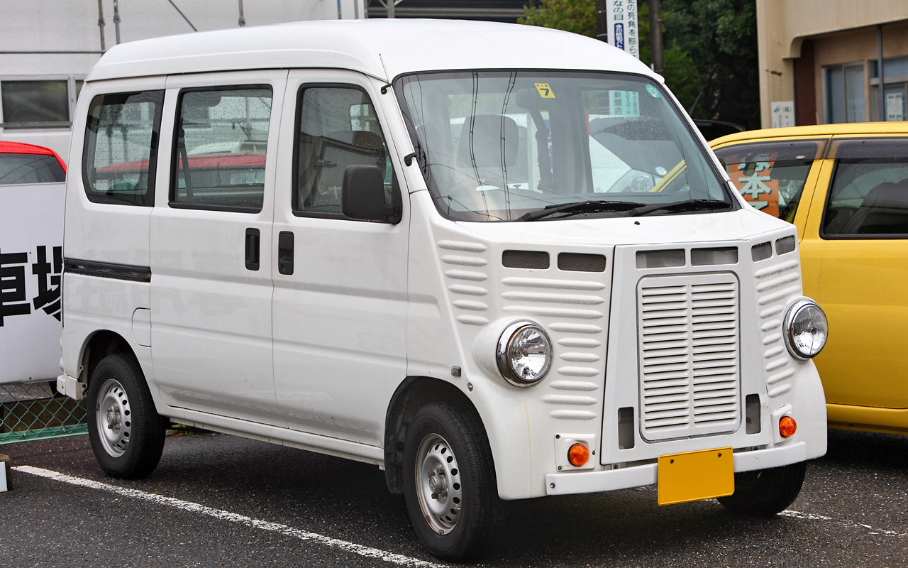 Third generation Honda Acty ( HH5 ), was remodeled into Citroën HY style.